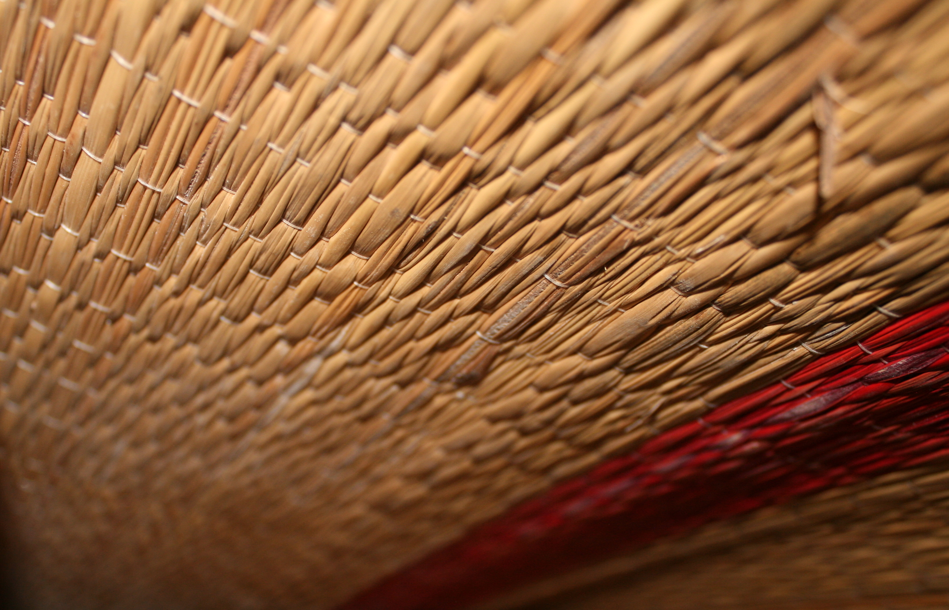 The mats made from Cyperus pangorei (Korai grass in Tamil) are called "Korai paai" in Tamil and can be found widely in the households of Tamil Nadu, usually in the size 6 feet by 3 feet.